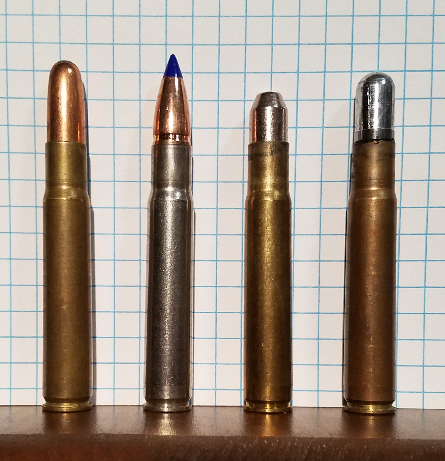 Hand-loaded .35 Whelen cartridges shown against a 25 mm (quarter-inch) grid, from left to right: 275 grain soft point bullet at 2150 feet per second for big-game hunting 200 grain plastic-tipped lead-free copper bullet at 2700 feet per second for big-game hunting 110 grain lead-free frangible revolver bullet at 3000 feet per second for varmint hunting 270 grain cast bullet at 1400 feet per second for silhouette target shooting